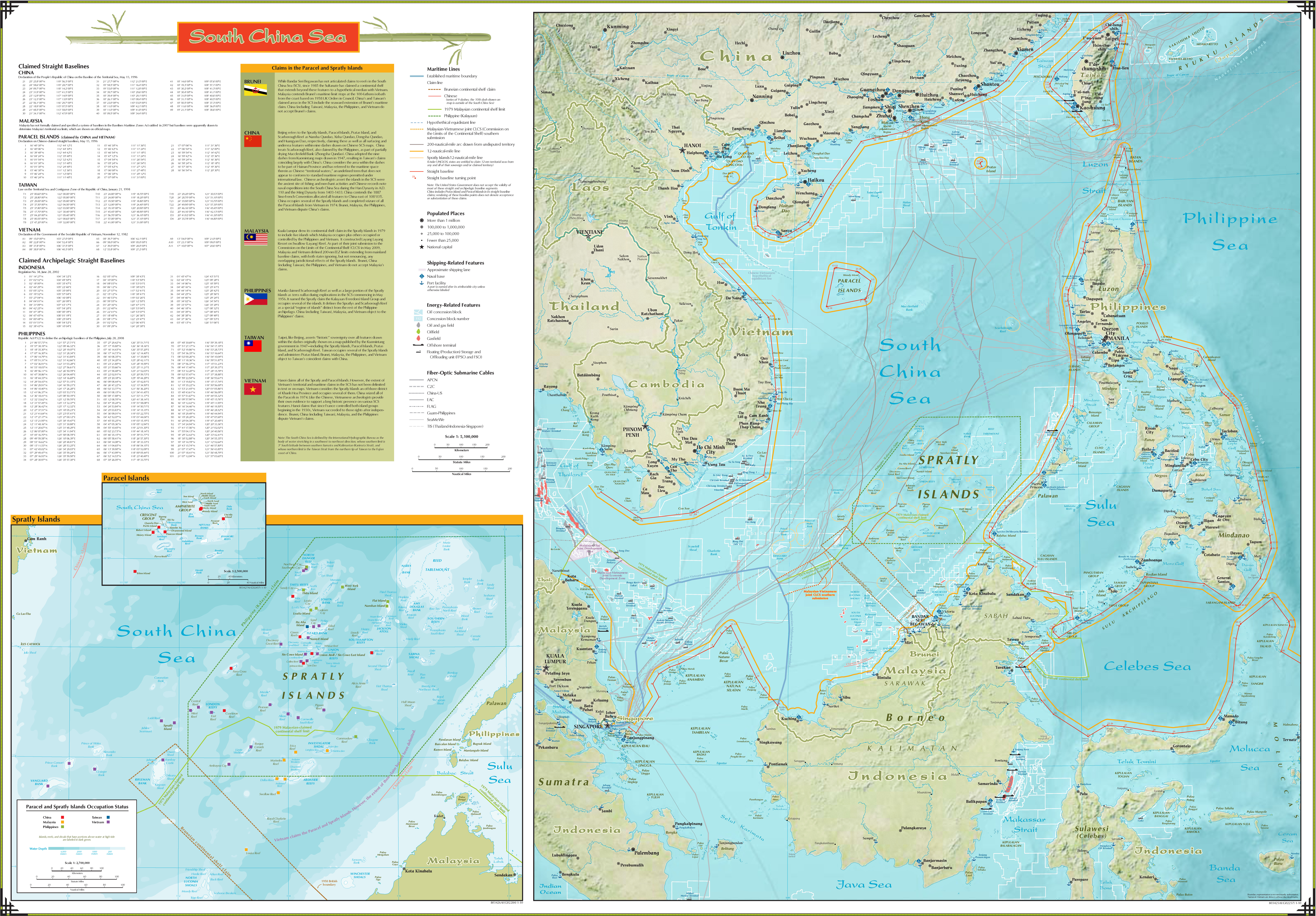 maps of the South China Sea with international disputes. 803425AI (G02257) 1-10